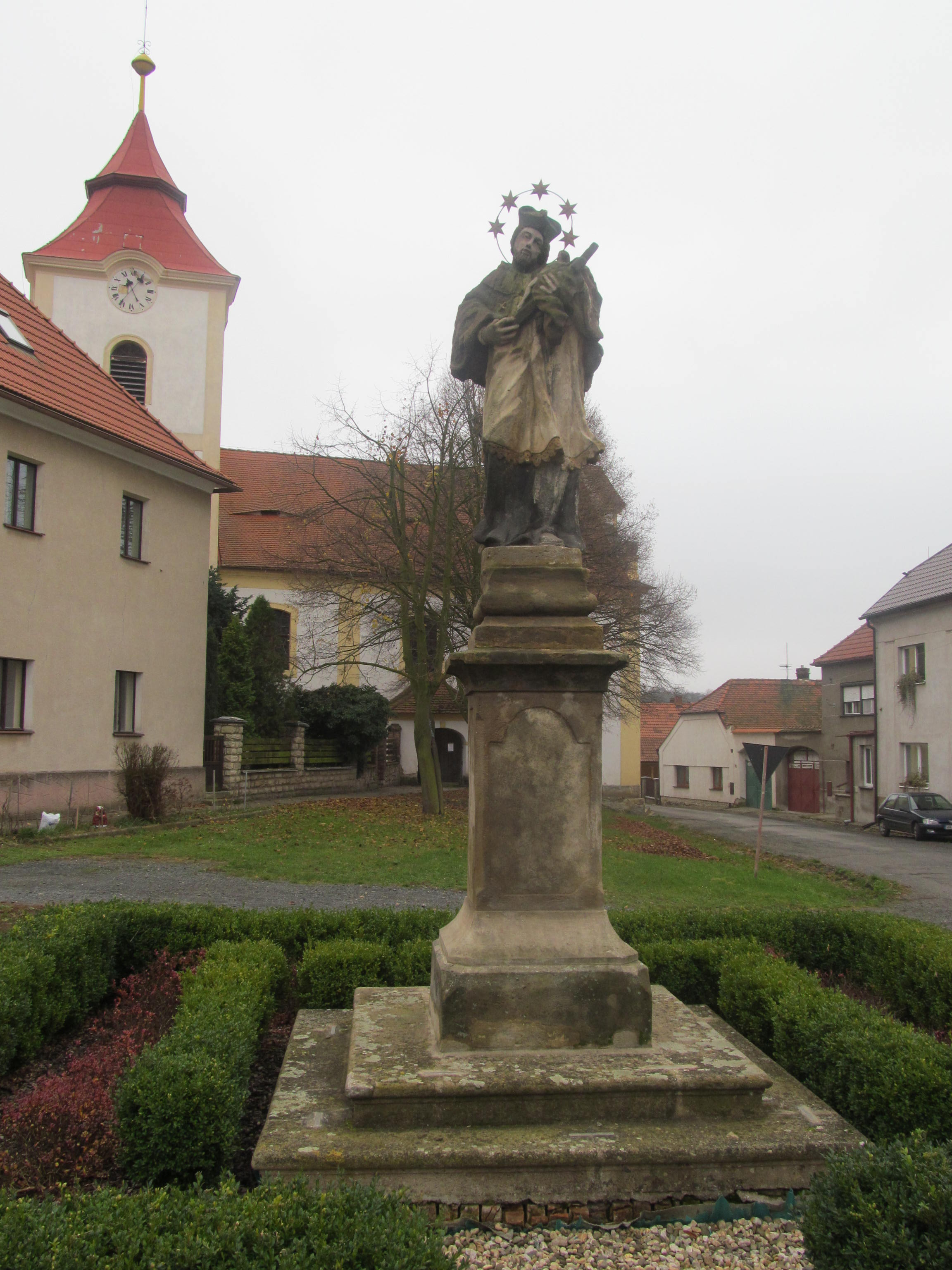 Statue of Saint John of Nepomuk in Opočno